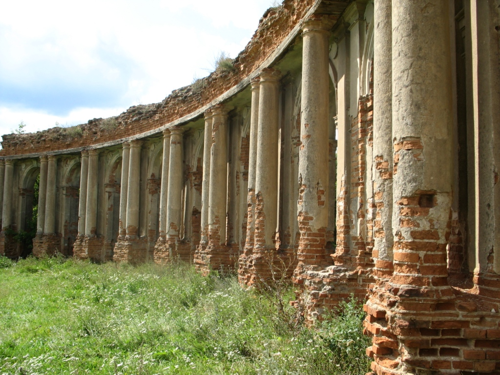 Palace of Sapieha (Ruzhany), Belarus